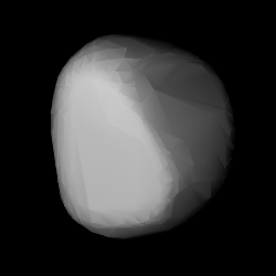 3D convex shape model of 1858 Lobachevskij, computed using light curve inversion techniques. J. Hanuš, J. Ďurech, M. Brož, B. D. Warner (June 2011). "A study of asteroid pole-latitude distribution based on an extended set of shape models derived by the lightcurve inversion method". Astronomy and Astrophysics 530: A134. ISSN 0004-6361. arXiv